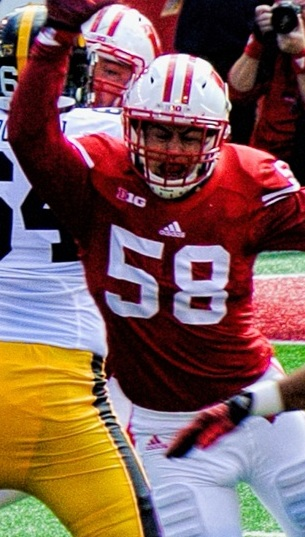 UW Badgers vs Iowa Hawkeyes, OLB Joe Schobert, UW # 58, trying to block a pass from QB Beathard, IOWA # 16